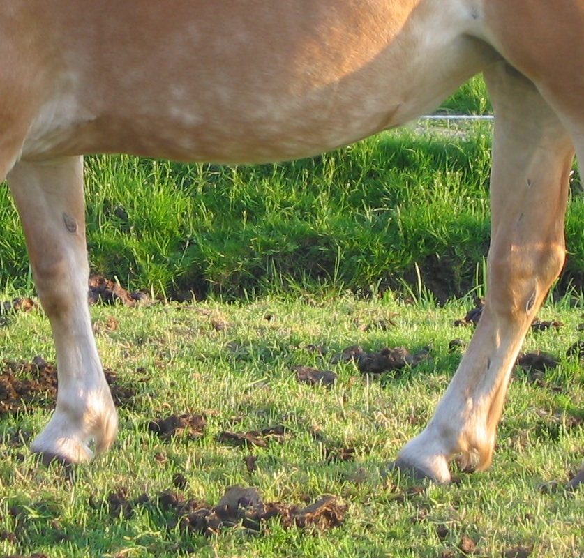 Legs of a Haflinger horse, chestnuts visible on both fore and hind legs.